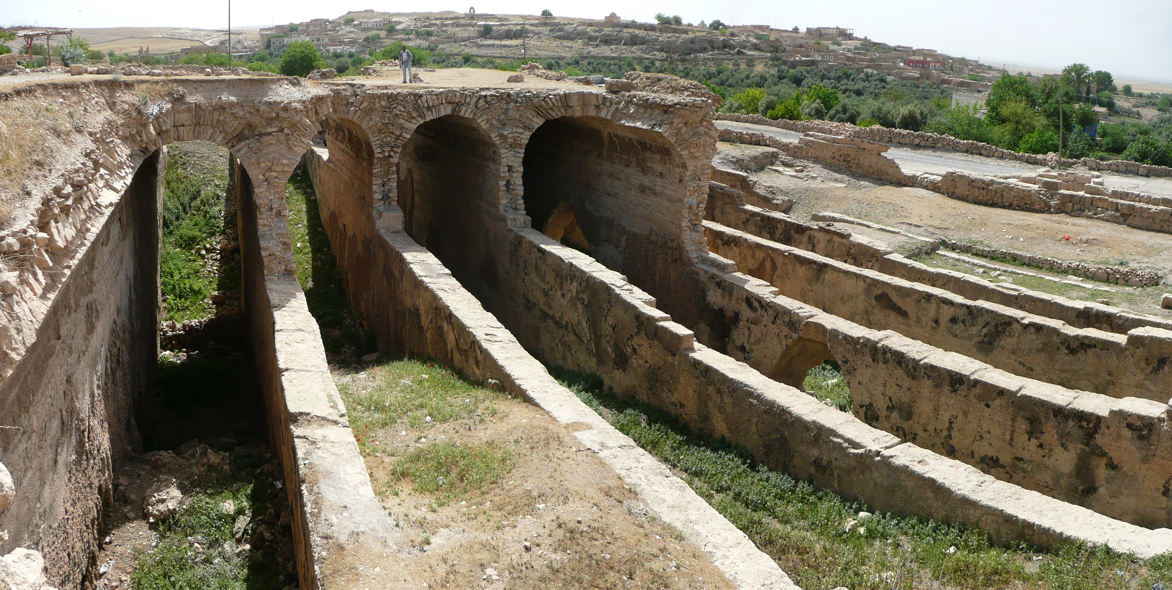 Photographs from Mardin, Turkey